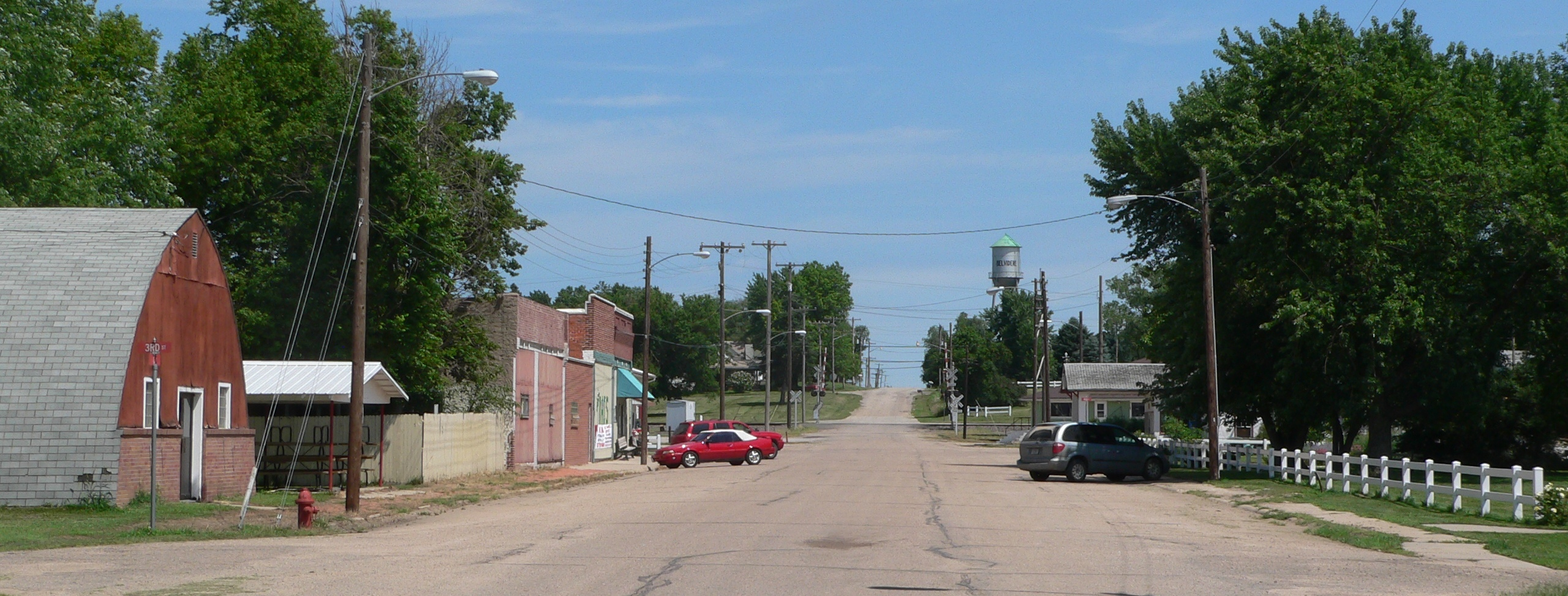 Downtown Belvidere, Nebraska: C Street, looking north from about 3rd Street.